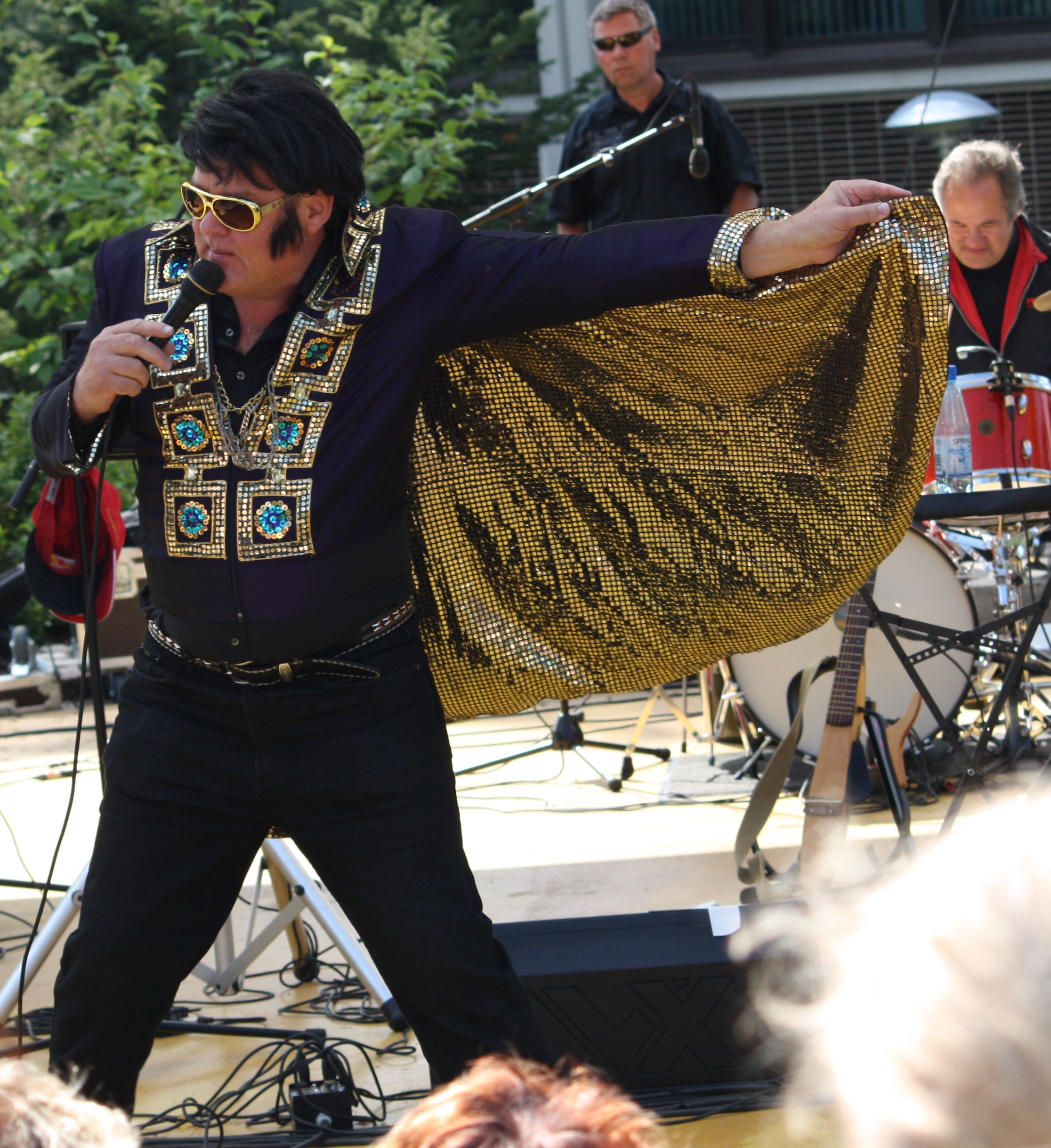 Finnish actor and musician Juha Laitila imitating Elvis Presley at Garlic Festival 2011 in Kerava, Finland.